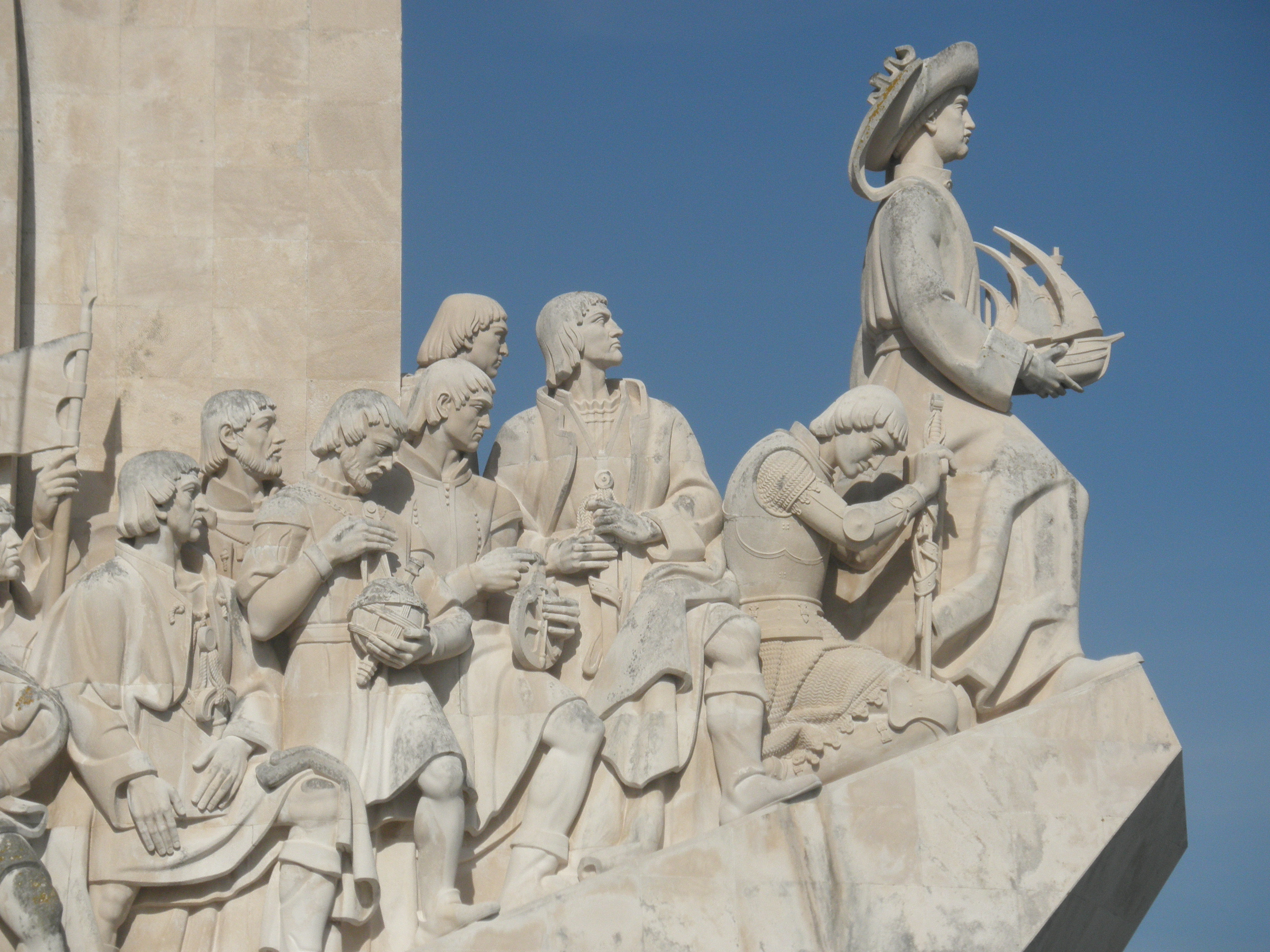 Padrão dos Descobrimentos, Details